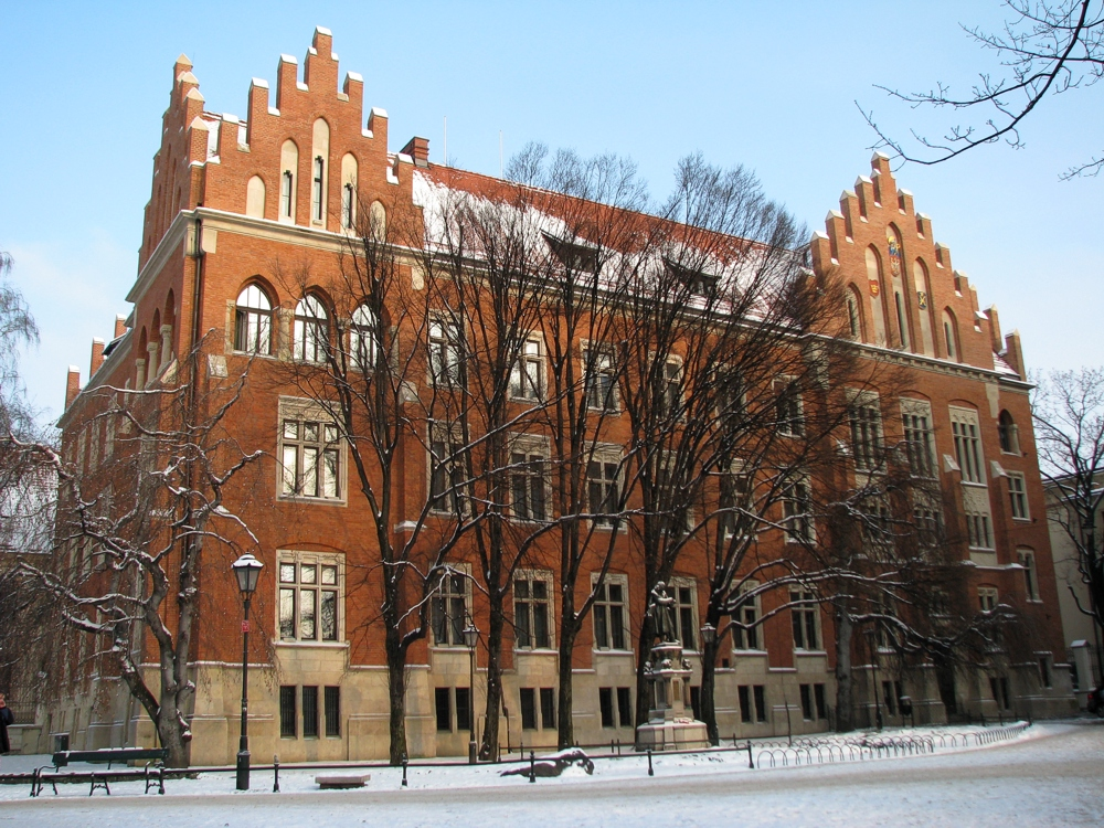 Collegium Witkowskiego (Collegium of Witkowski), building of Jagiellonian University in Krakow, Poland. By Gabriel Niewiadomski, 1908-11